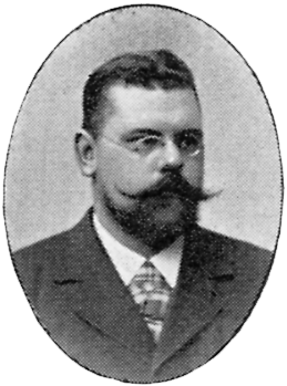 Image scanned from the book "Svenskt Porträttgalleri XX - Arkitekter, Bildhuggare, Målare m.fl. " ("Swedish Portrait Gallery XX - Architects, Sculptors, Painters, ") published 1901